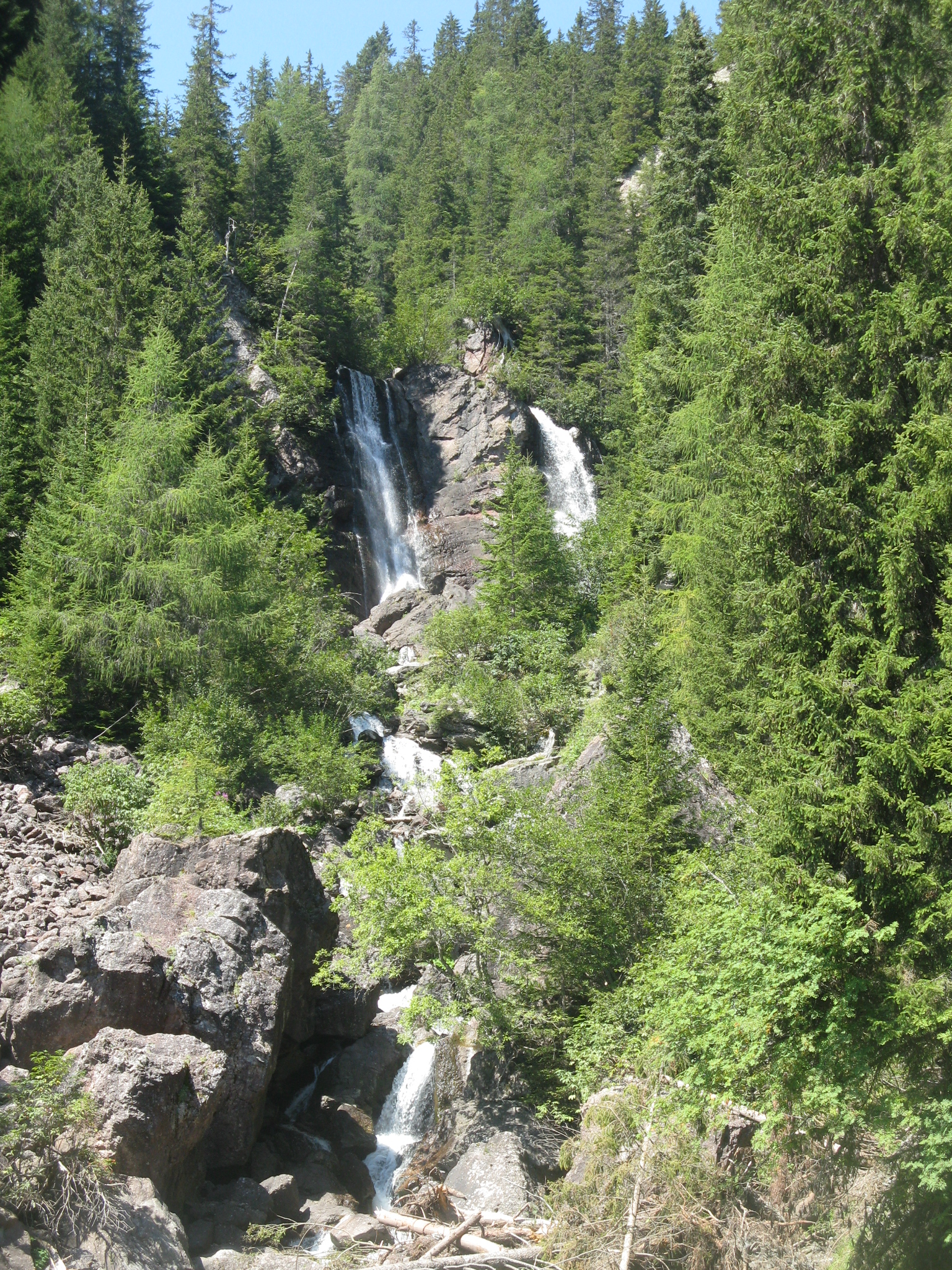 Torrente Padola, Province of Belluno, Italy